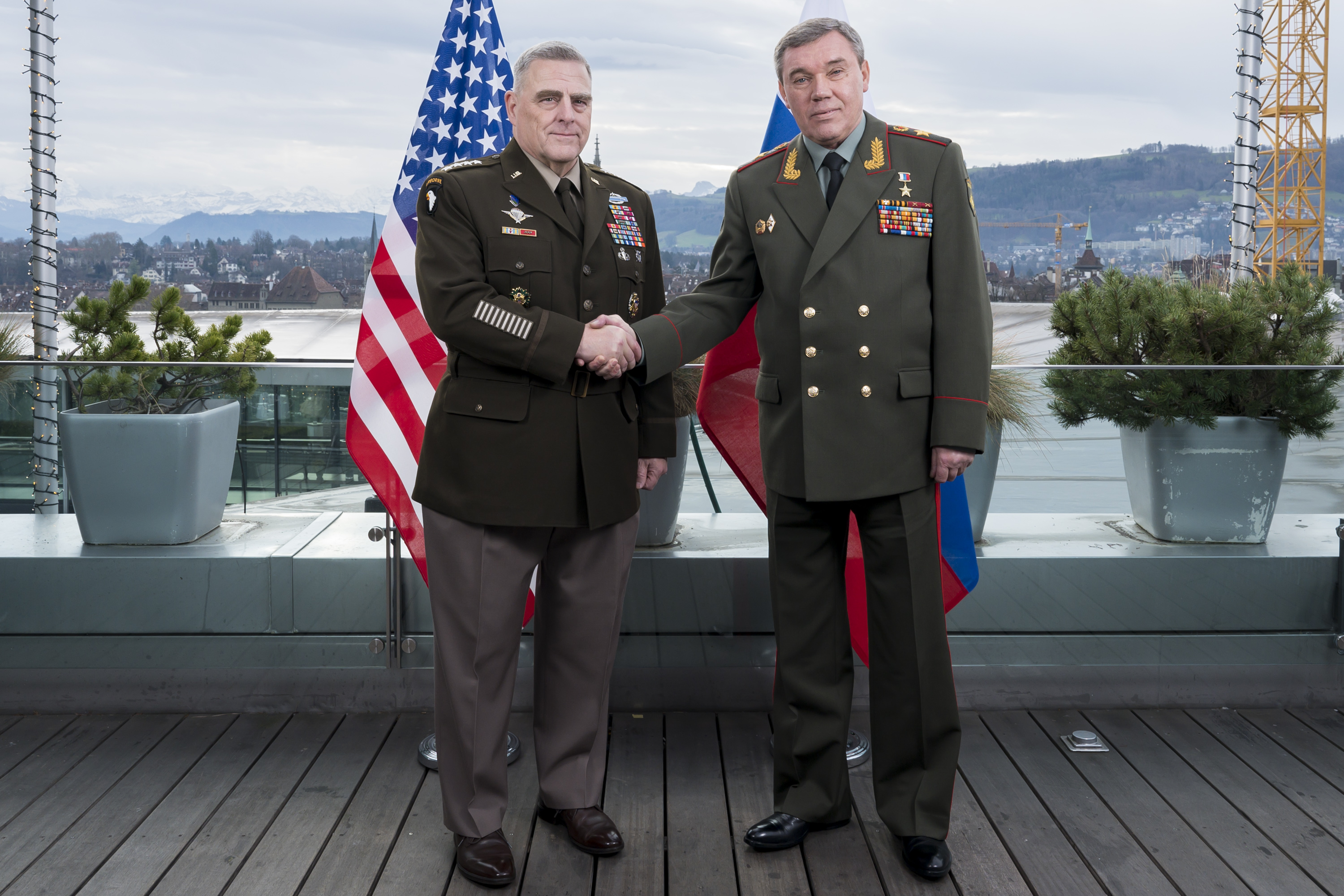 Chairman of the Joint Chiefs of Staff Gen. Mark A. Milley meets with Chief of the Russian General Staff Gen. Valery Gerasimov in Bern, Switzerland, Dec. 18, 2019. (DOD photo by U.S. Army Sgt. 1st Class Chuck Burden)